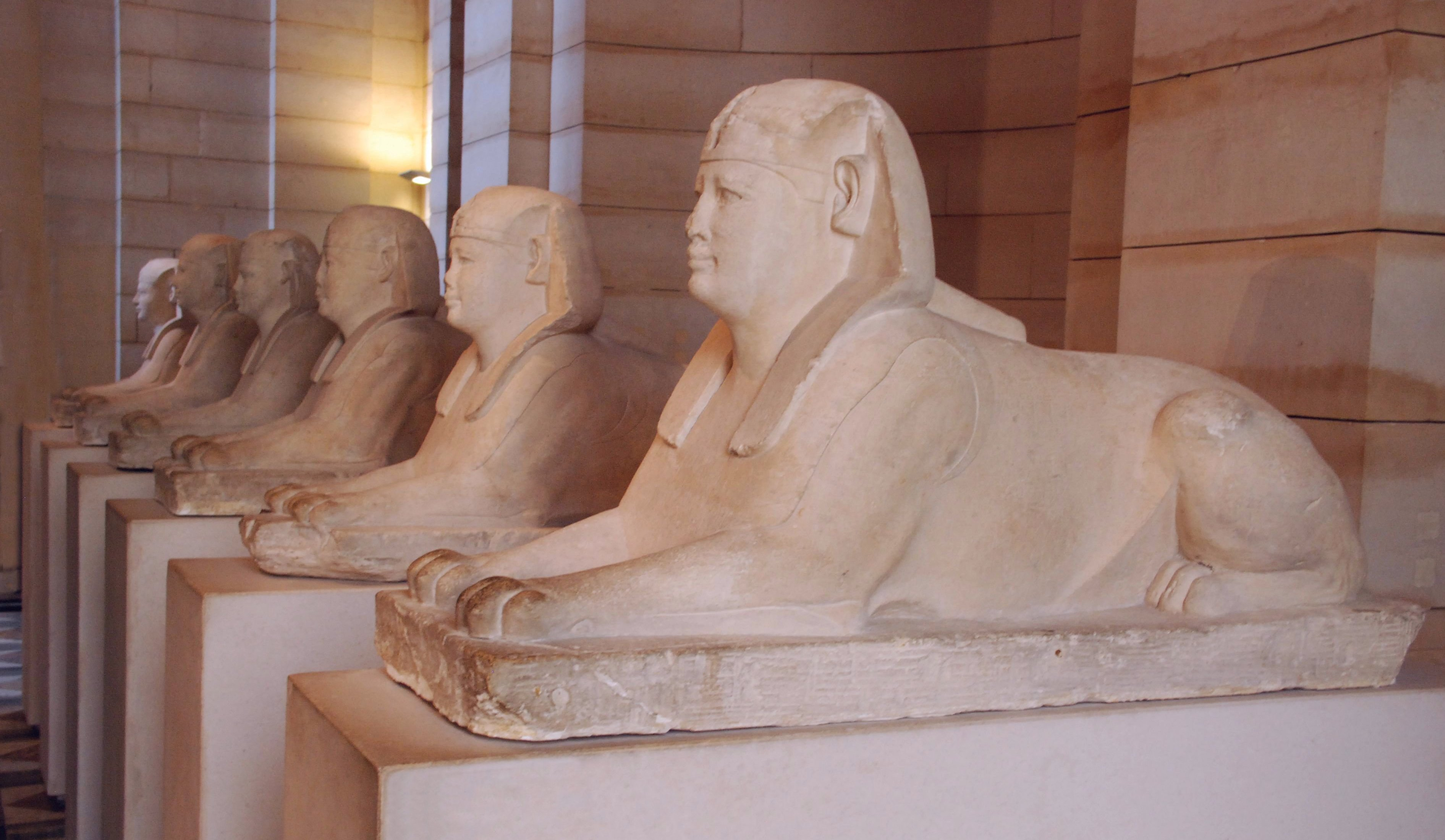 Six sphinxes from the alley leading to the Serapeum of Saqqara; 4th or 3rd C. BC (start of the ptolemaic period).